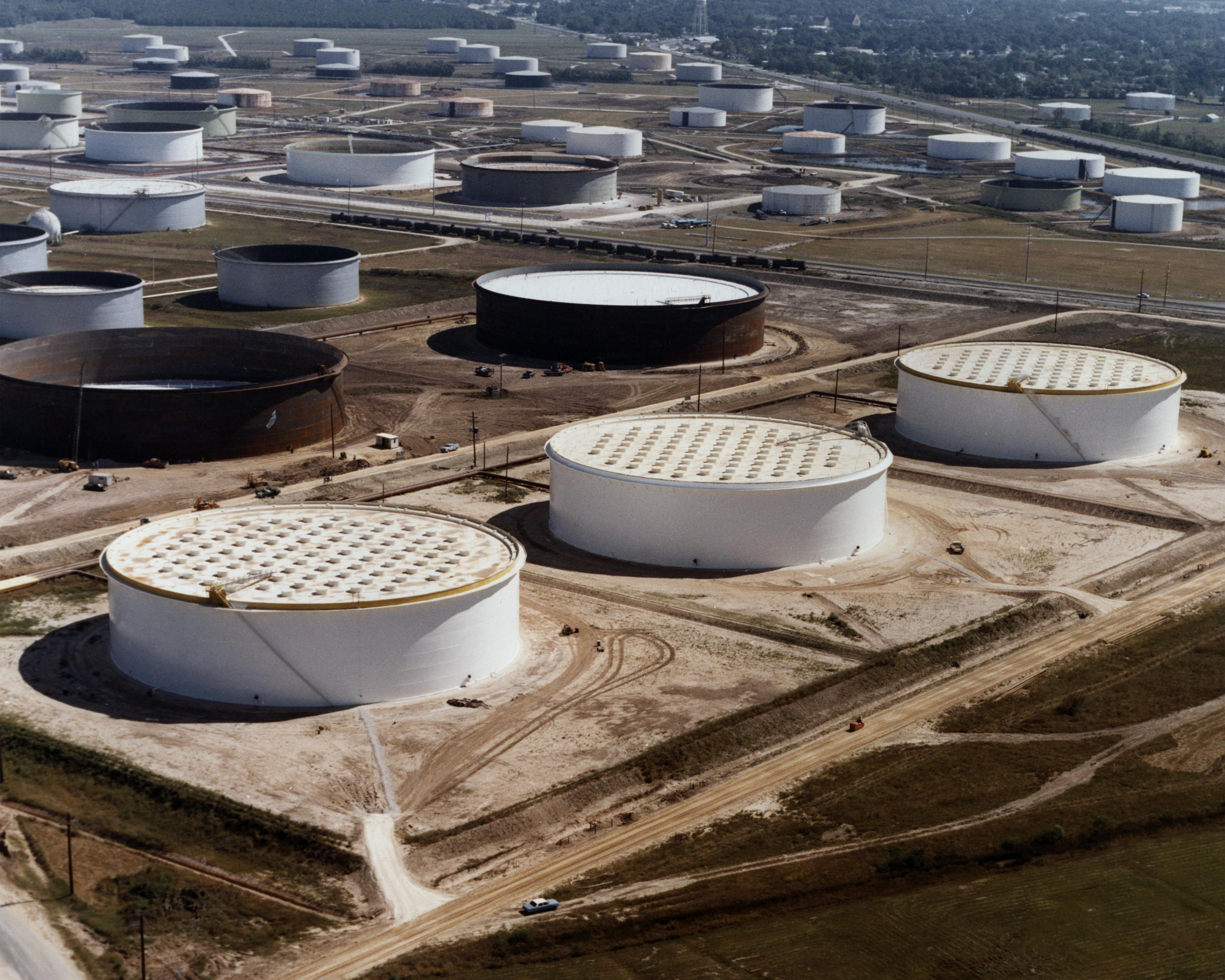 AERIAL VIEW OF THREE (WHITE) DOE CRUDE OIL STORAGE TANKS IN THE FOREGROUND AT THE SUNOCO TERMINAL NEAR NEDERLAND, TX. THE PURPOSE OF THE STRATEGIC PETROLEUM RESERVES IS TO REDUCE THE NATION'S VULNERABILITY TO A SEVERE SHORTAGE OF PETROLEUM SUPPLY. THE SITES NEED TO BE ACCESSIBLE TO TANKERS AND PIPELINES SO THAT, IN AN EMERGENCY, THE OIL COULD BE WITHDRAWN AND ENTERED INTO THE NORMAL DISTRIBUTION SYSTEM. THE GULF COAST HAS THE PORTS, REFINERIES, AND PIPELINES TO ACCOMMODATE THE RESERVES. THE STORAGE AREAS ARE BEING CONSTRUCTED UNDERGROUND IN SALT DOMES ALONG THE TEXAS AND LOUISIANA COASTS.